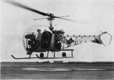 A Bell HTL-6 (Bell 47) helicopter of the Royal Canadian Navy in the mid-1950s.